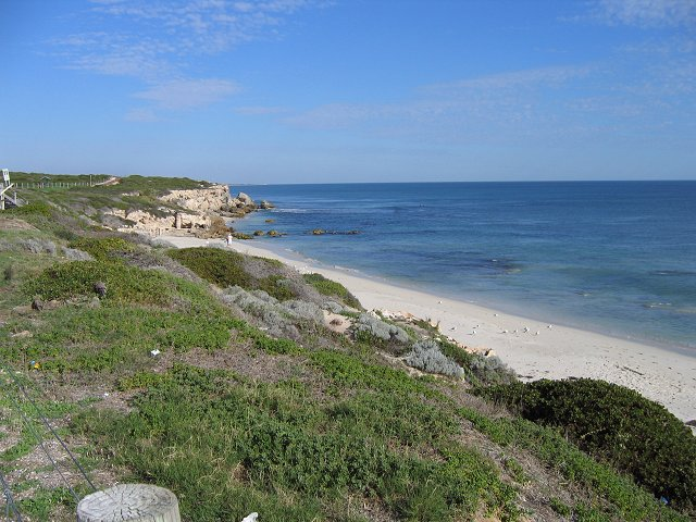 View of Indian Ocean - South towards Ocean Reef and Hillarys at Burns Beach, Western Australia. The coastal nature walk can be seen to the top left. photographed September 2005.